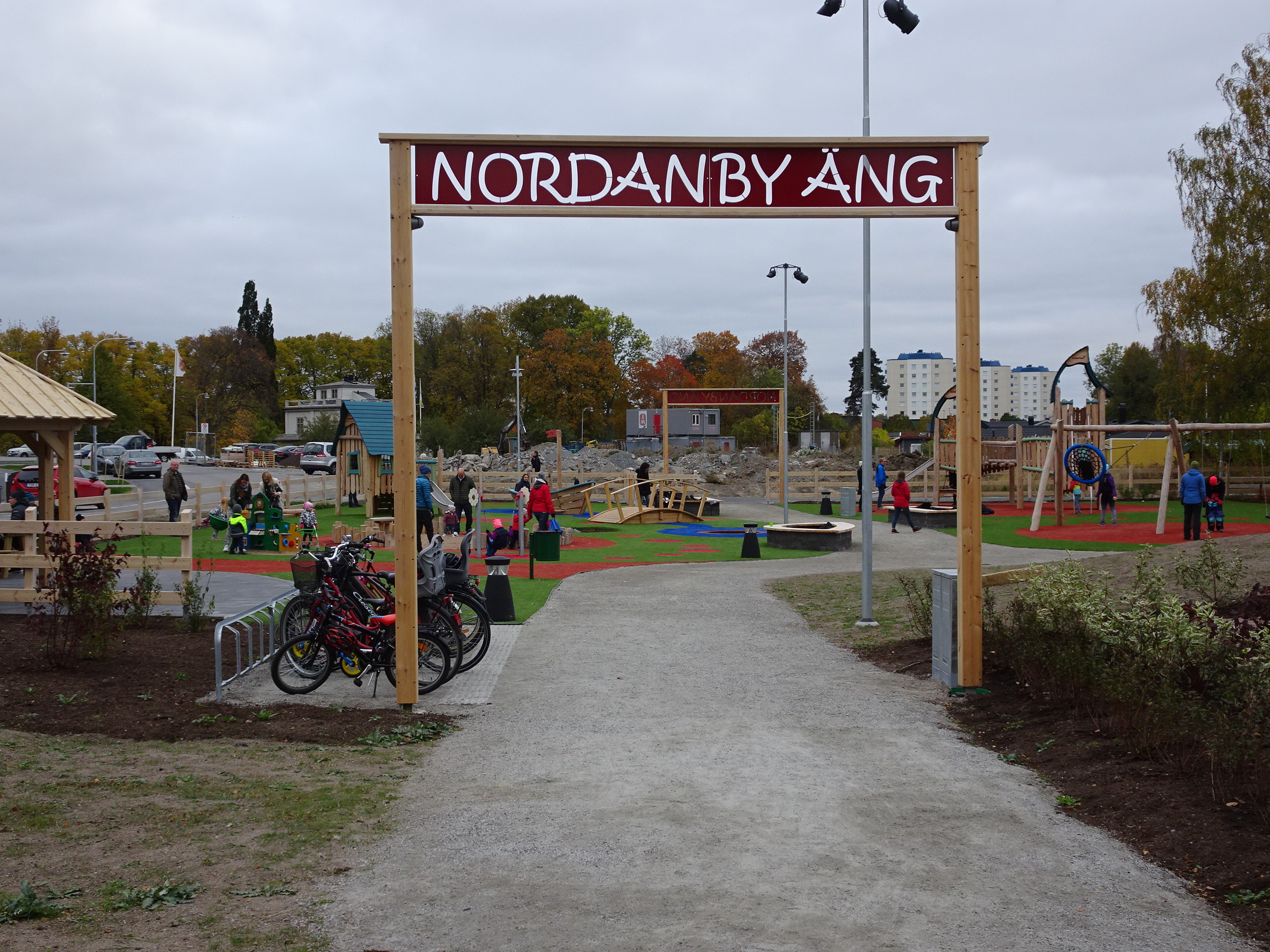 Playground Nordanby Äng in district Nordanby, Västerås, Sweden. It was inaugurated in the autumn of 2016.